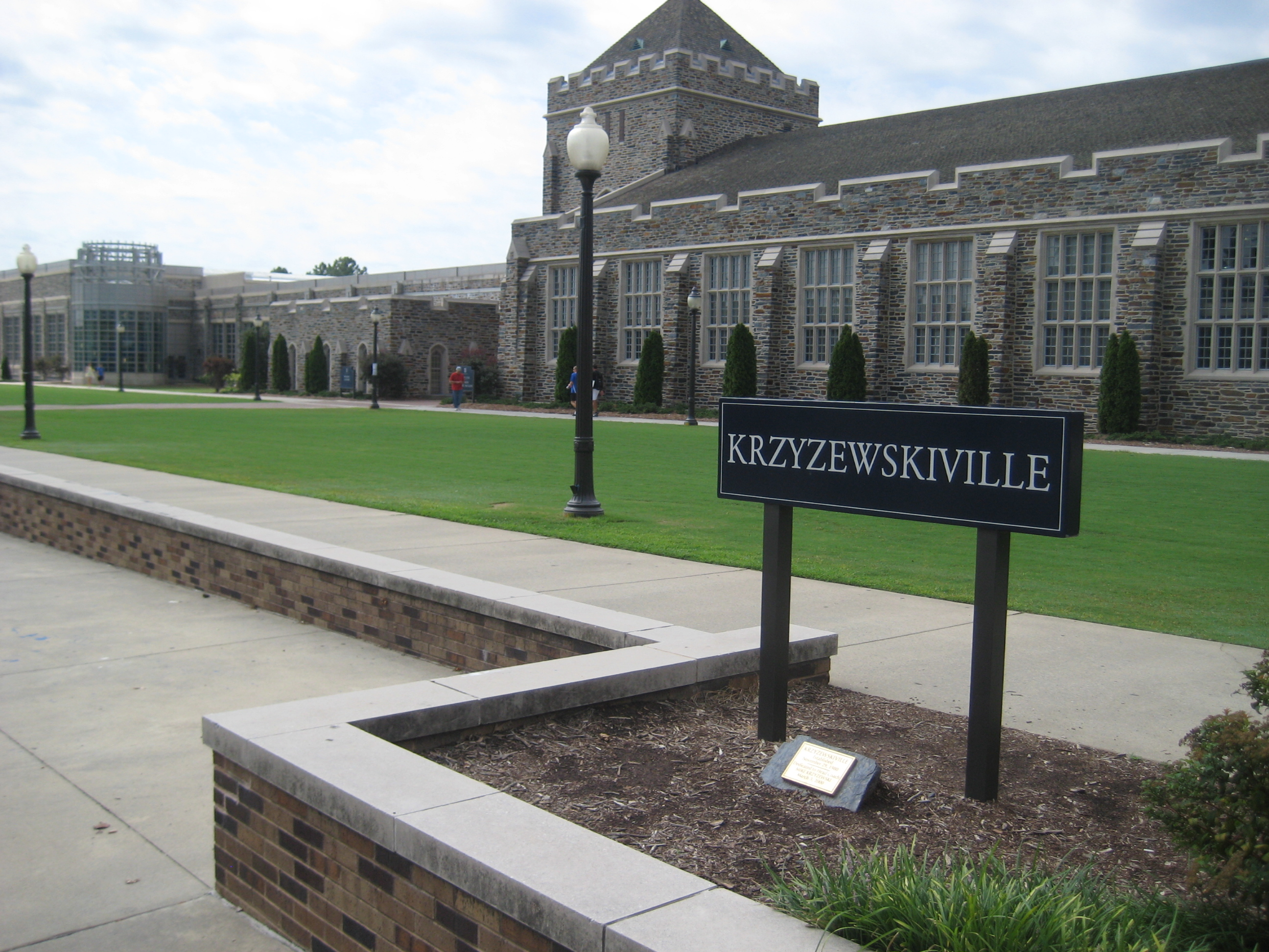 The lawn outside of Cameron Indoor Stadium where Duke University students camp out for tickets to the men's basketball games. Stadium designed in the Gothic Revival style by African American architect Julian Abele, chief designer of the Horace Trumbauer office